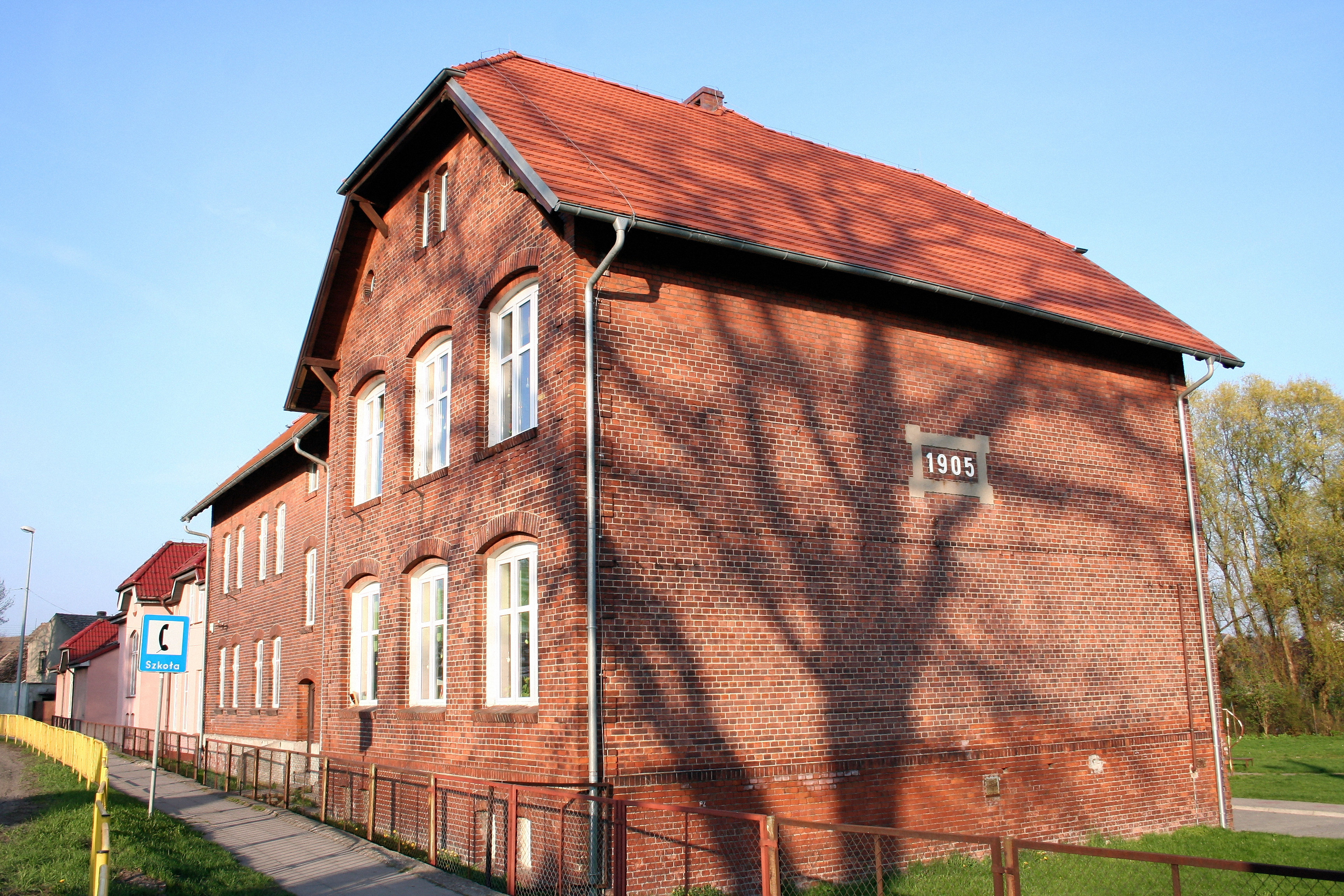 School in Sarbinowo (West Pomeranian Voivodeship, administrative district Dębno)